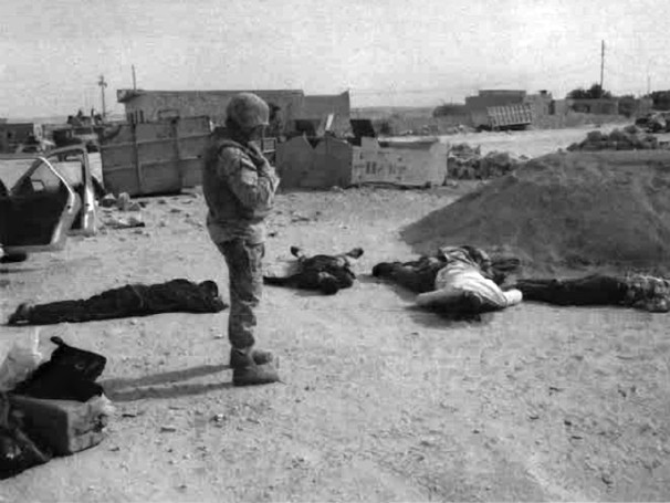 Original Caption: A photo contained in a Naval Criminal Investigative Service report obtained by The Washington Post shows a Marine inspecting a roadside scene near Haditha, Iraq, where five unarmed civilians were killed on Nov. 19, 2005. Earlier that day, Marines stopped the white taxi in which the men had been riding, then allegedly shot them after a bomb exploded nearby. The incident was the first on a day of violence in Haditha that left 24 civilians dead, among them women and children, and four Marines charged with murder.